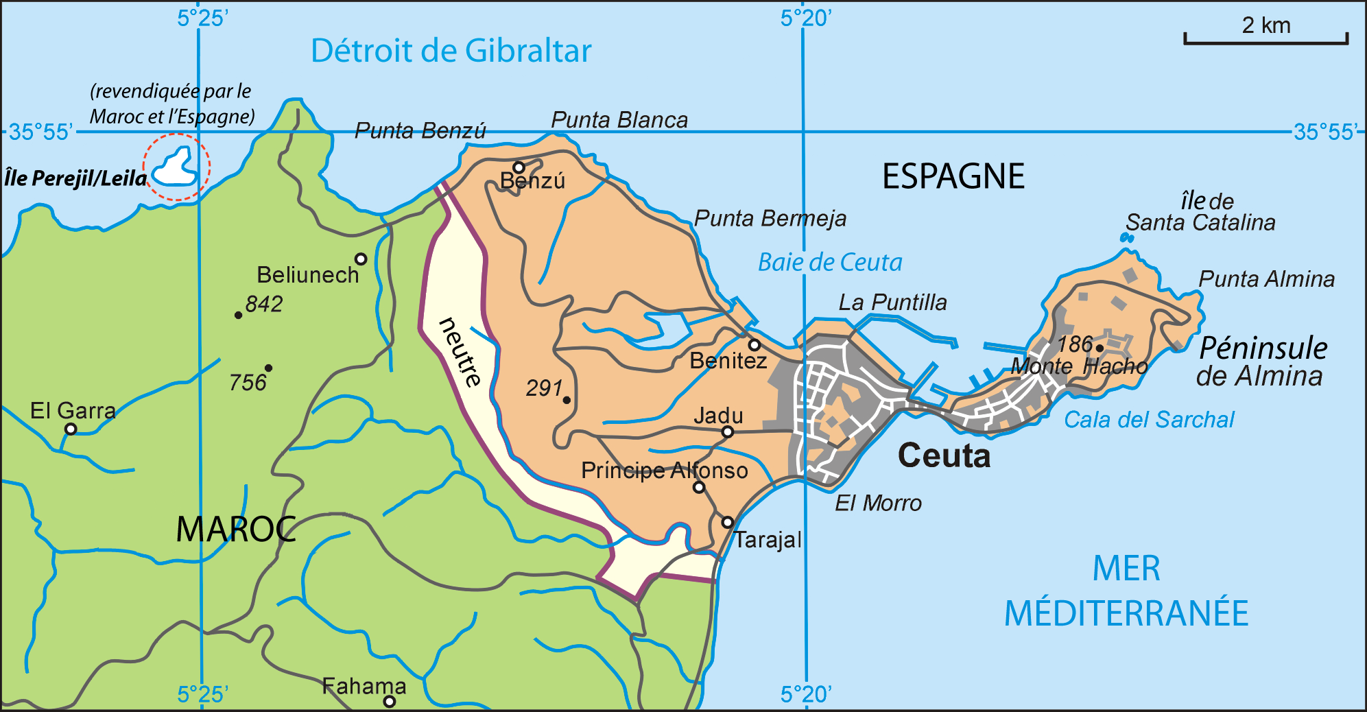 translation in fr and modification of Image:Ceuta.png